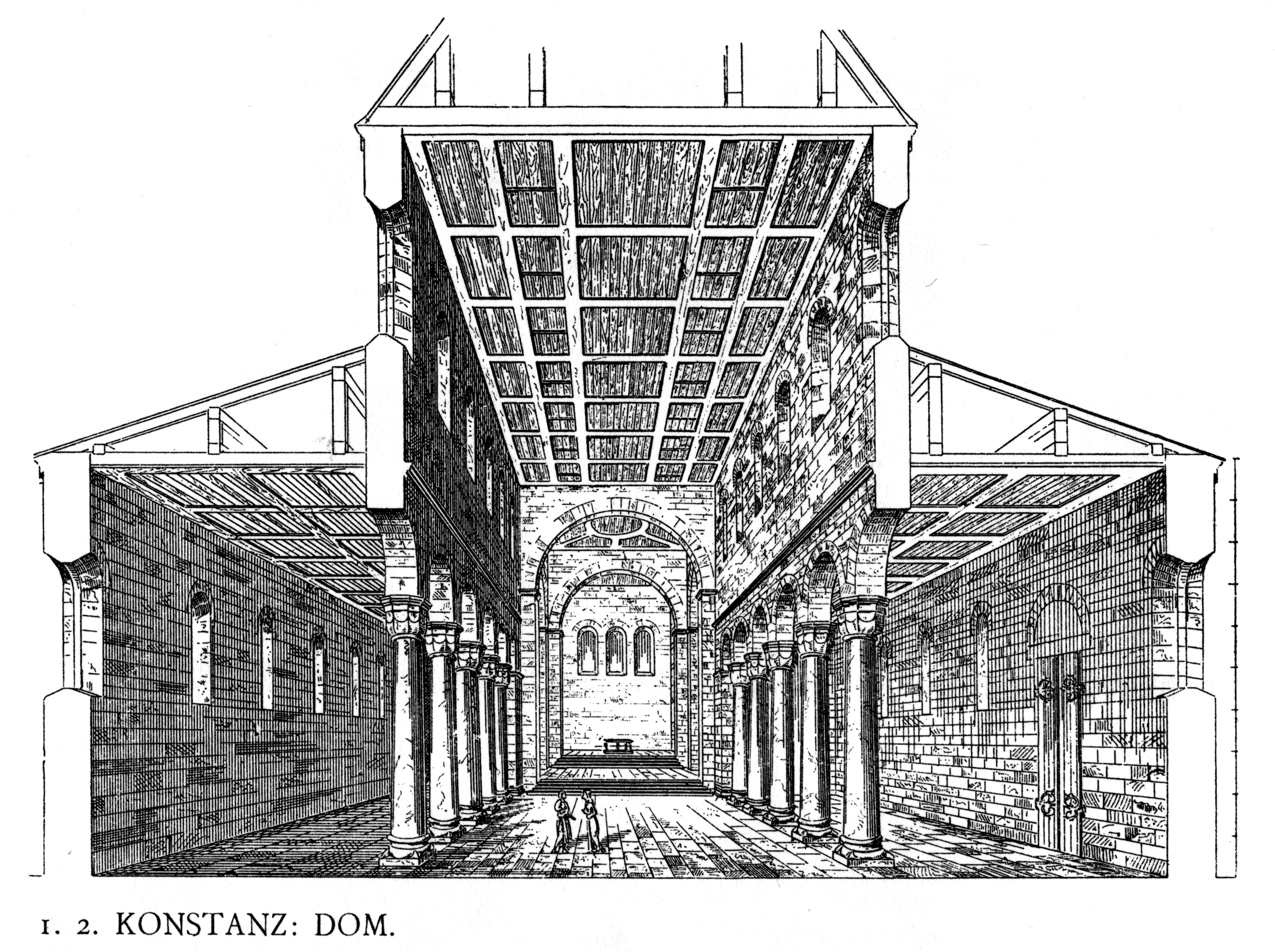 Cathedral of Konstanz, Cross section. Reconstruction of the Romanesque church before it was refurbished in Gothic style.